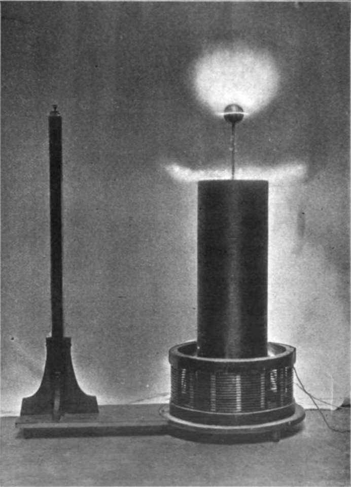 Photo of a Tesla coil (then called an Oudin coil), built at Los Angeles Polytechnic High School around 1900. 48 inches (121 cm) high including top electrode. The outer primary coil has 15 turns and the secondary coil has 800-1000 turns. The primary was powered with a 10,000 volt 1kW transformer, capacitor, and spark gap. It produced streamers up to 2 feet long. The corona discharge at the top of the coil looks as if it was painted onto the photo later. Alterations to image: removed caption, which read: "Oudin resonator, showing spray discharge around upper edge and around ball terminal."